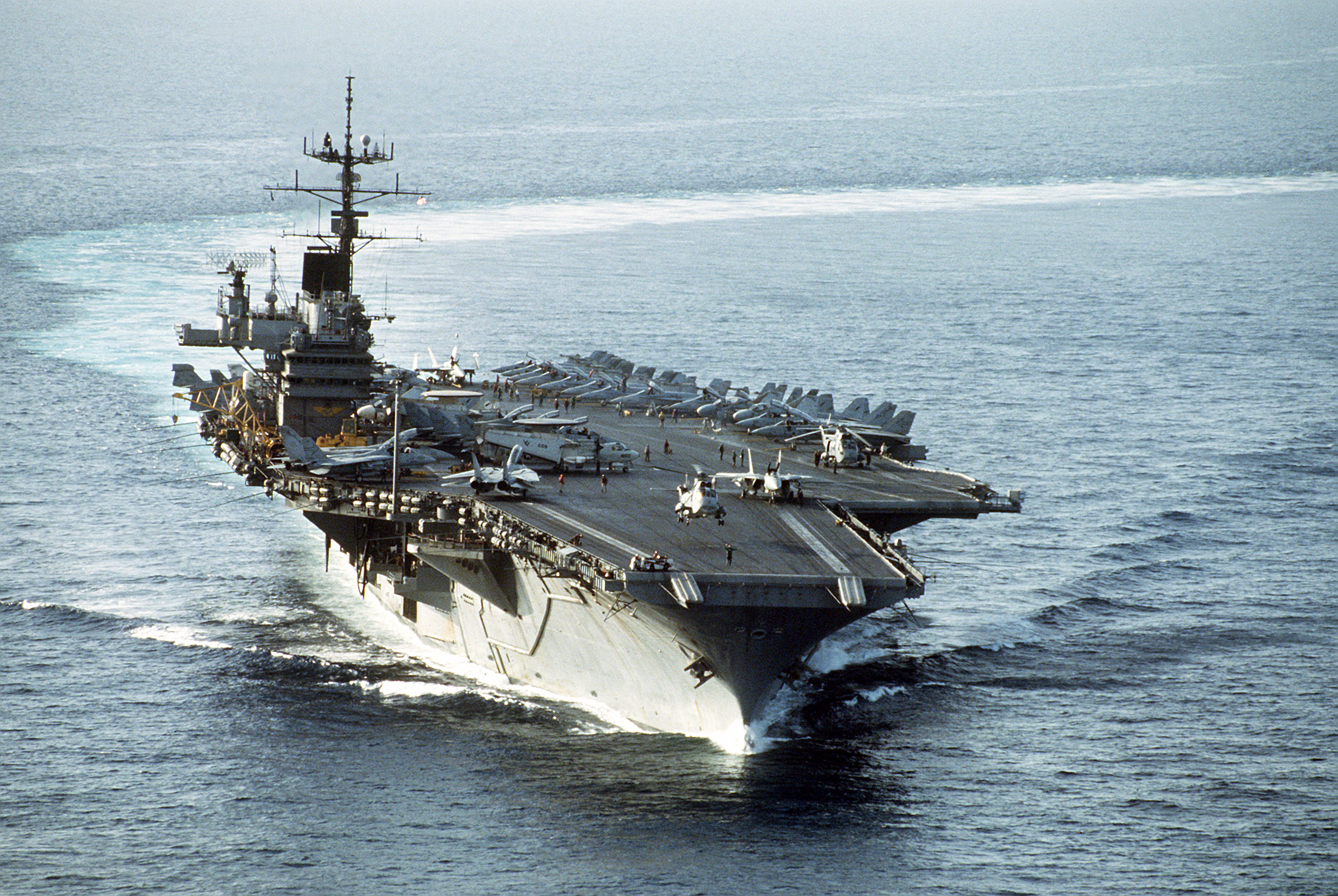 A bow view of the aircraft carrier USS SARATOGA (CV-60) underway with various aircraft parked on the flight deck during Operation Desert Storm.